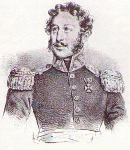 Franciszek Sznajde